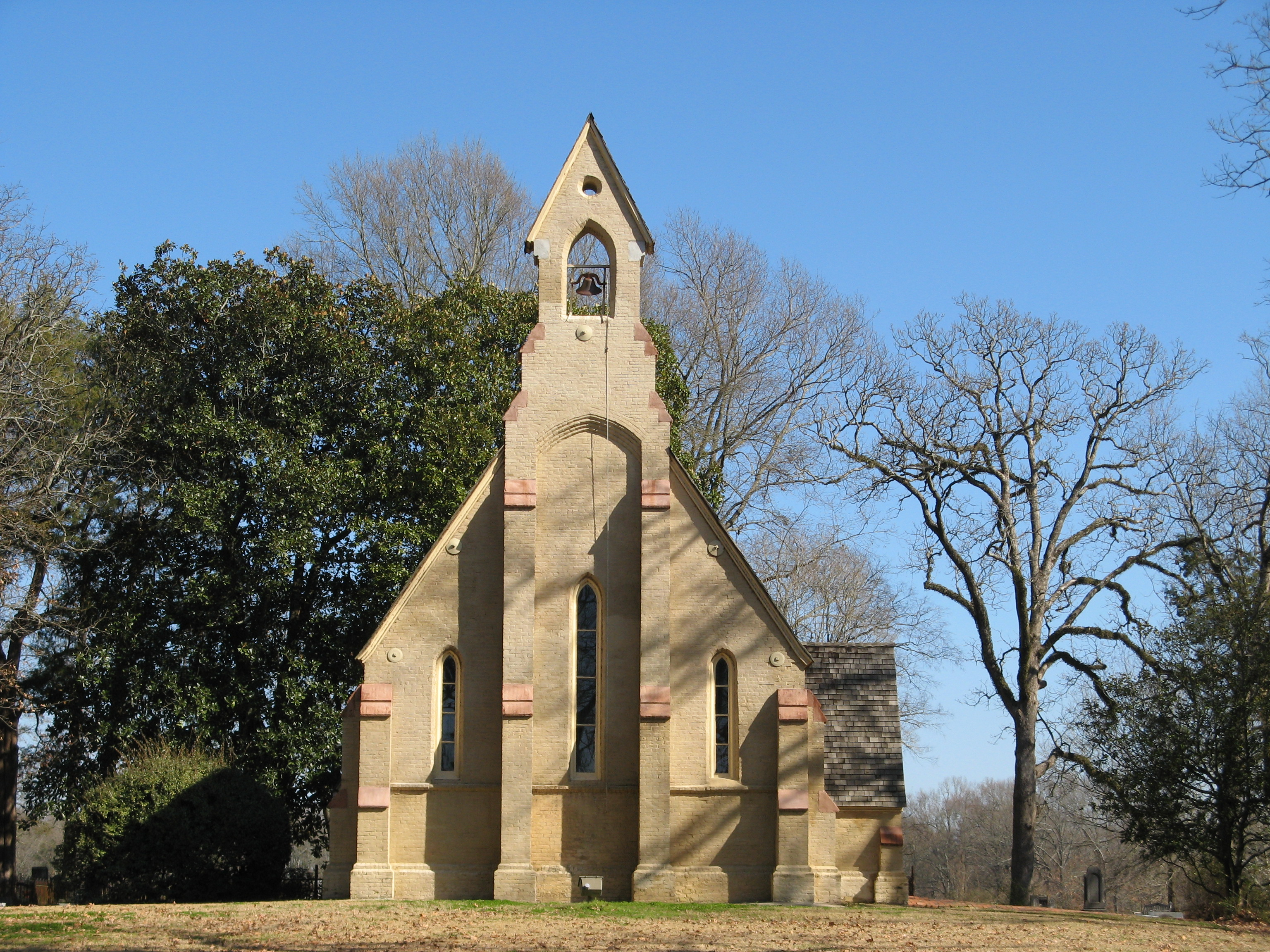 I'm making my way through a backlog of tombstone pictures I took last week and came upon another picture of Chapel of the Cross that I think is sufficiently different from the others to go on and post it also.